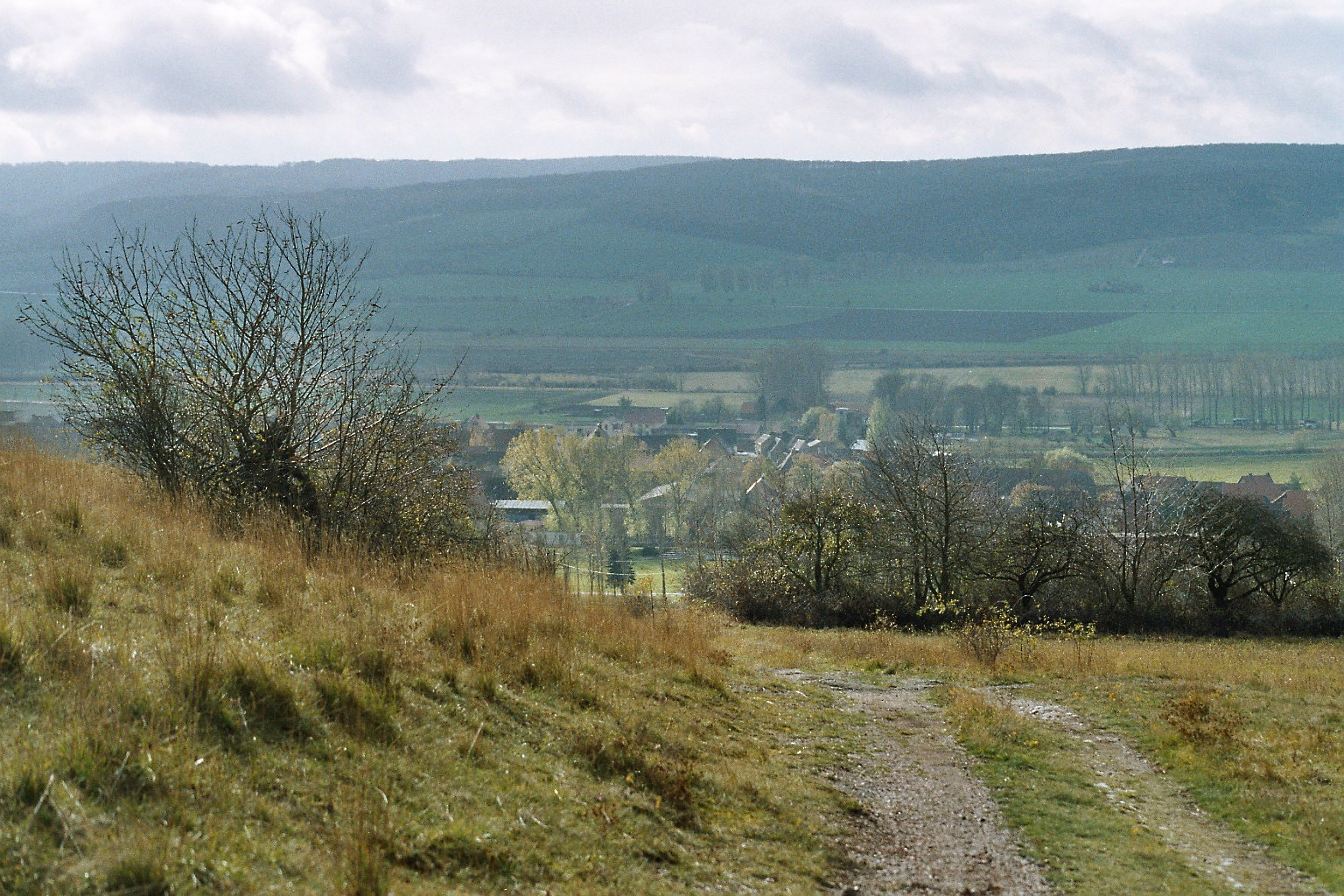 Bottendorf (Roßleben) - View from the Bottendorf mountains southward